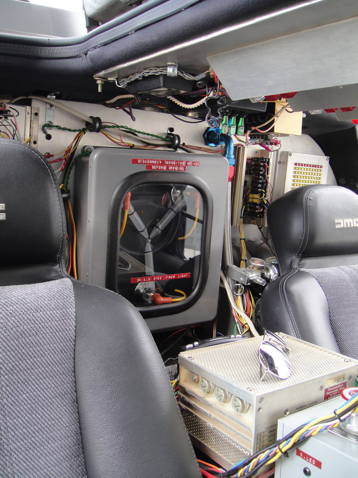 Back to the Future II Delorean Flux Capacitor